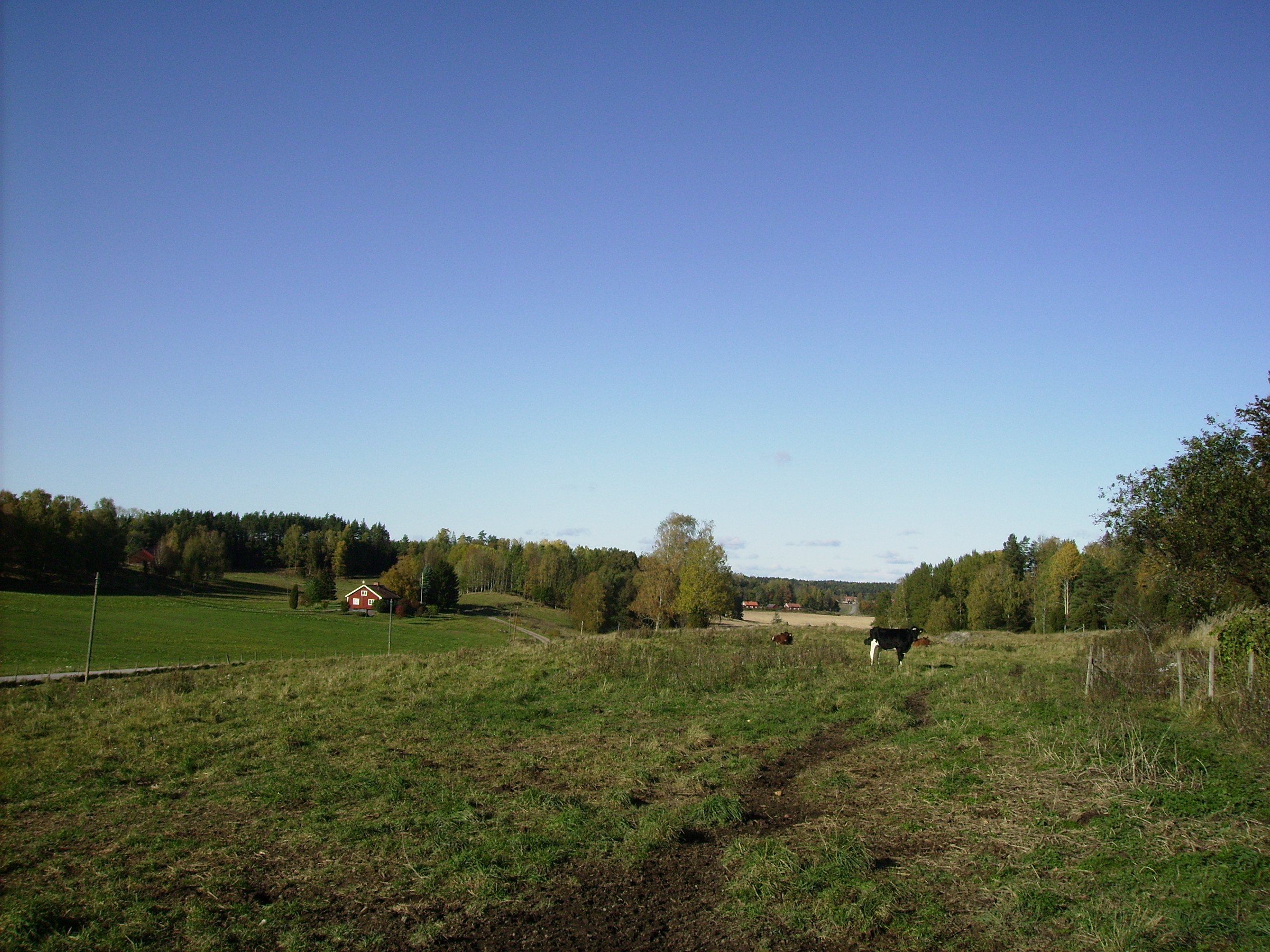 Picture of countrysida with cows in Sättersta, Södermanland, Sweden.